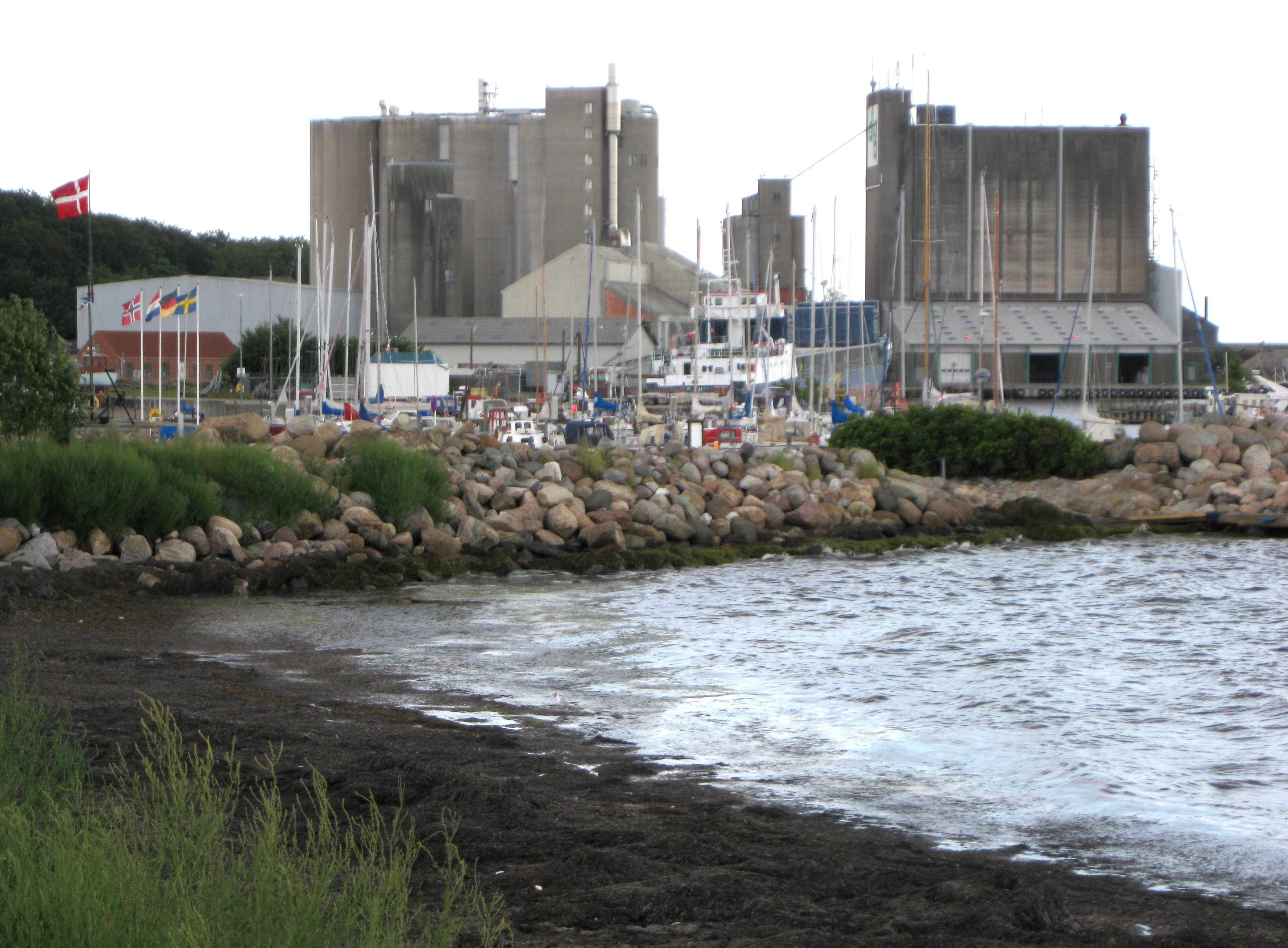 The habour of the small town "Faxe Ladeplads". The town is located on South Zealand in east Denmark.